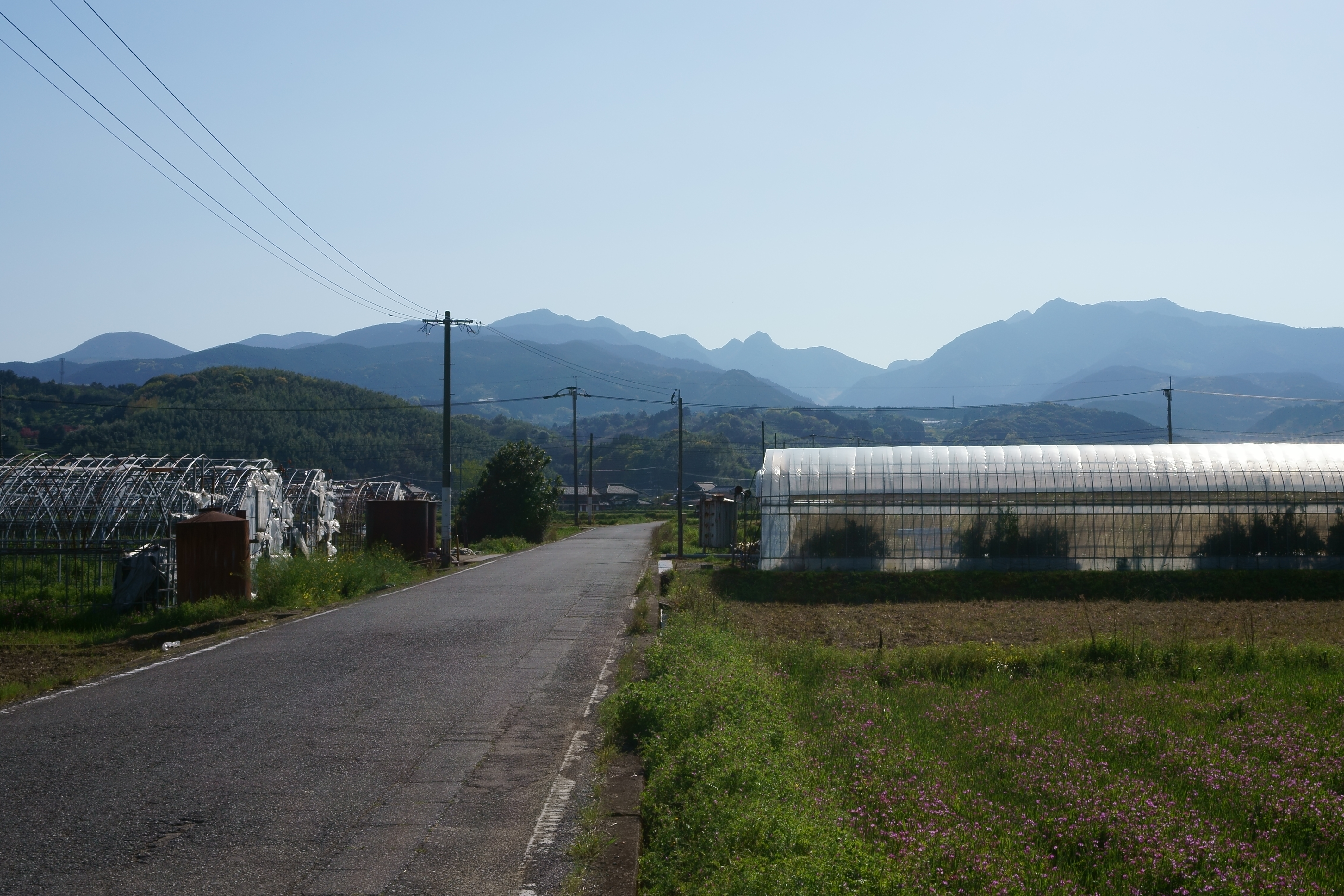 Taradake Mountains from Tara town, Saga prefecture.